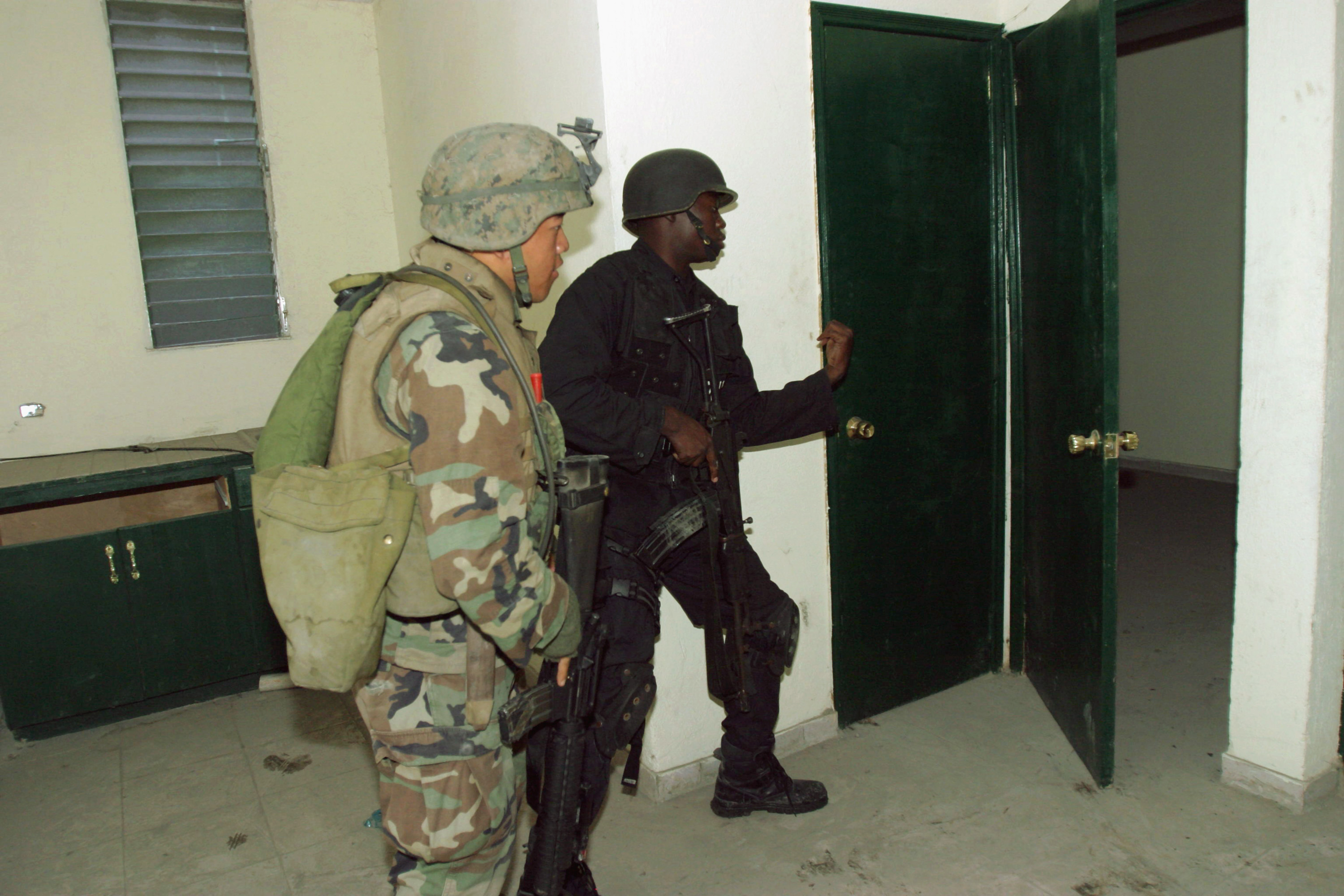 A U.S. Marine Corps (USMC) Marine assigned to 3/8 Kilo Company, 1st Platoon, 2nd Marine Division, armed with a 5.56mm M16A2 rifle, accompanies a member of the Haitian National Police Special Weapons And Tactics (HNP SWAT) team, armed with a 5.56mm Vektor R4 assault rifle, equipped with folding stock, during the search an apartment complex during a pre-dawn raid. The complex was believed to be the location where Marines had been taking sporadic fire from since they arrived in Port-Au Price, Haiti. USMC Marines with Haitian National Police, who translate and enforce Haitian laws, conduct raids to find weapons and other violations of the law.